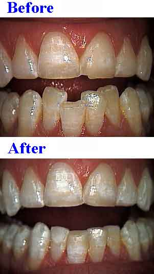 Sculpting (enamel recontouring the lower front teeth) and Bonding in one visit.